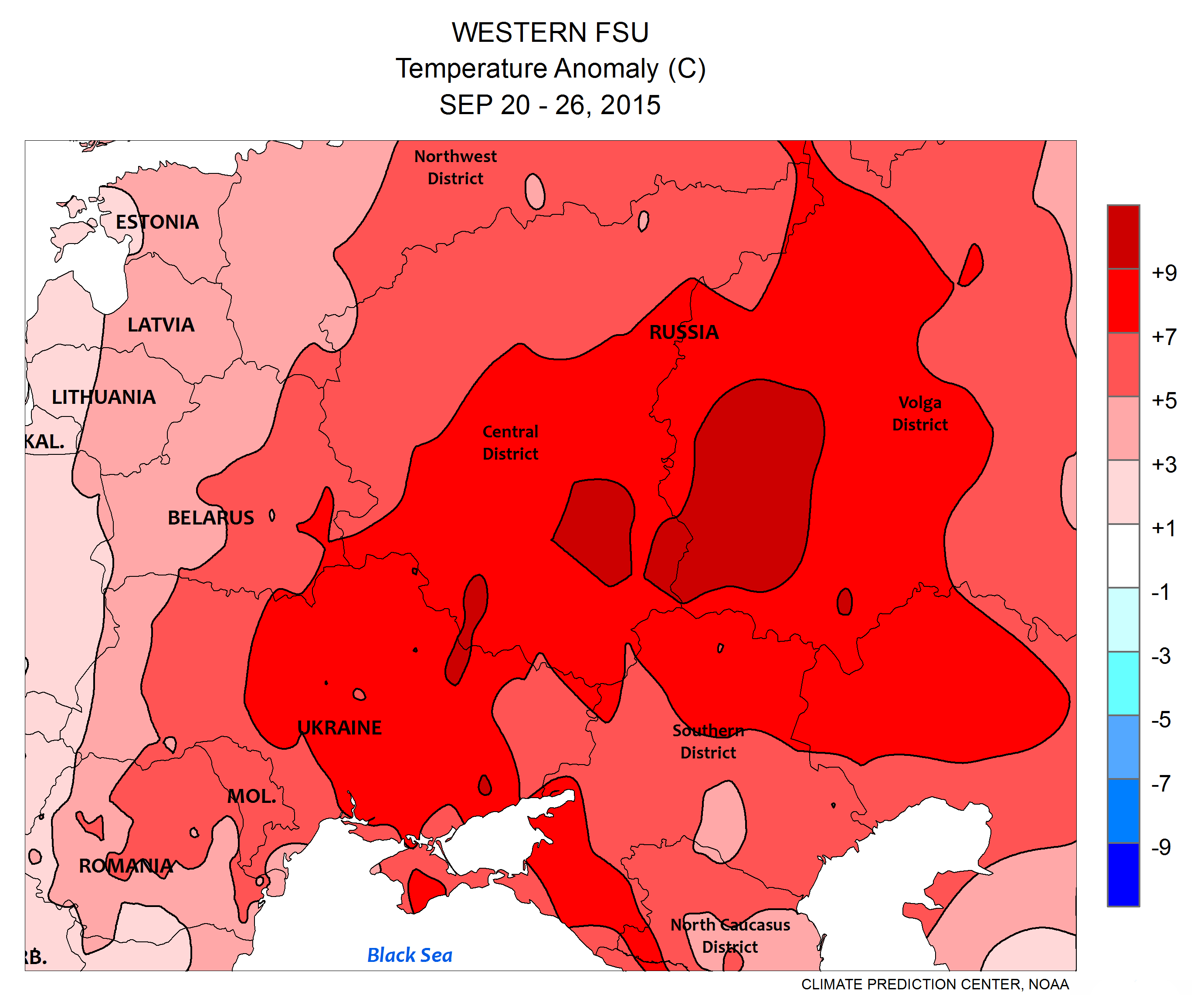 Western FSU: Temperature anomaly September 20 - 26, 2015, computer generated contours, based on preliminary data